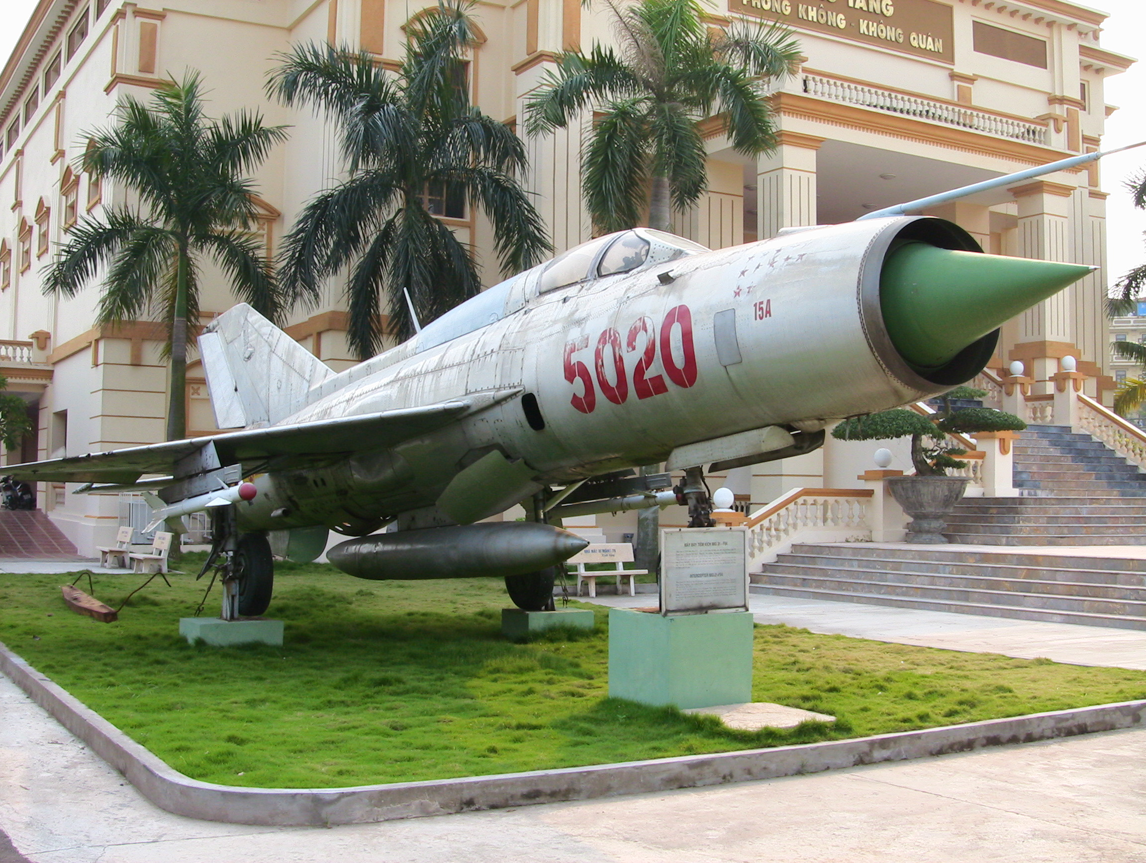 The MiG-21F94 numbered as 5020 owned by the 921st fighter regiment. Some aces of Vietnam People's Air Force drove this aircraft.